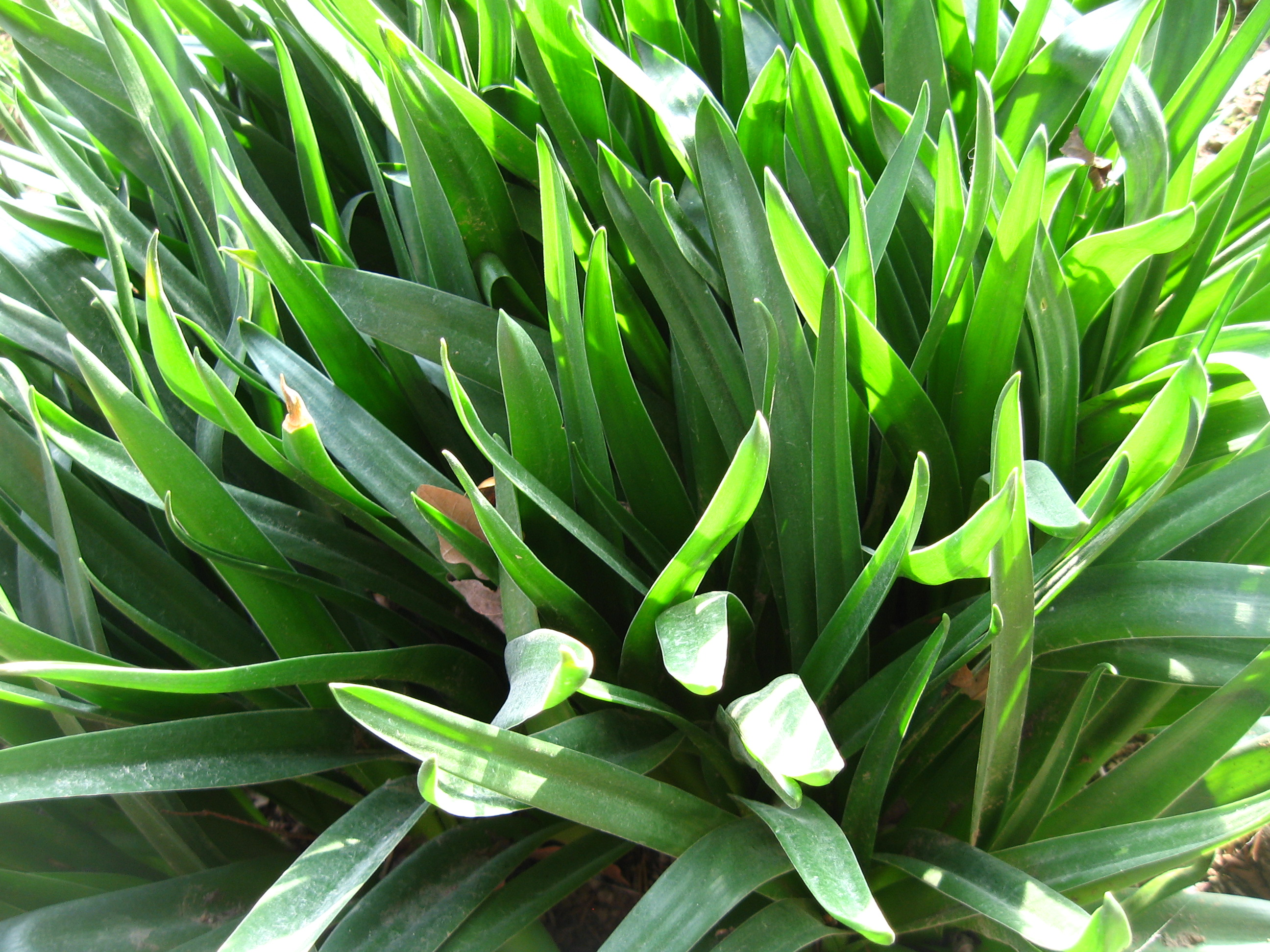 Scilla peruviana L. Liliaceae